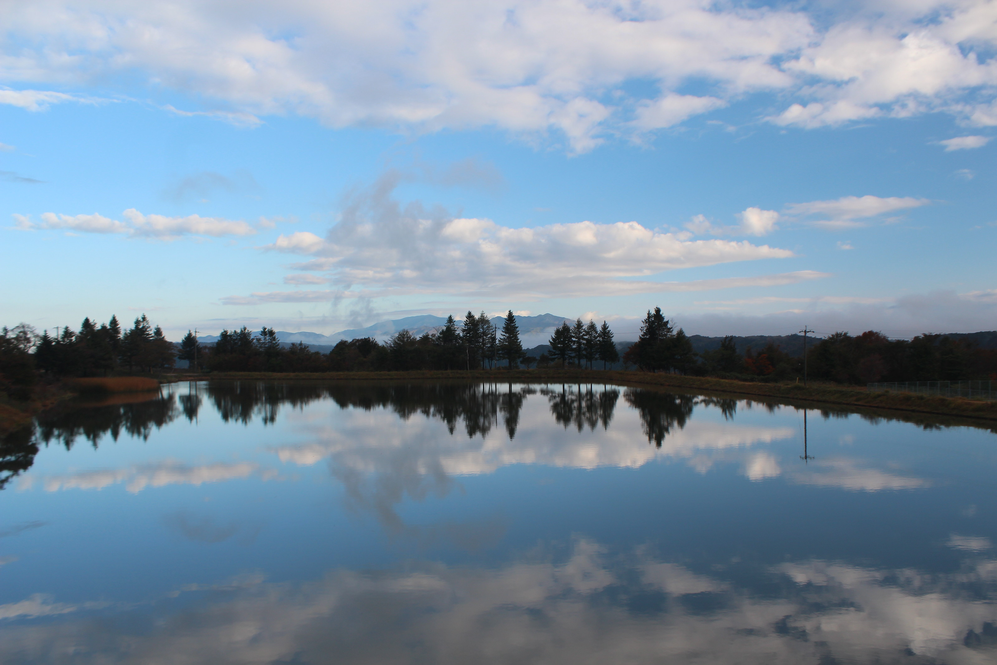 Chausu lake in Chausuyama Plateau, in Nagano prefecture, Japan.